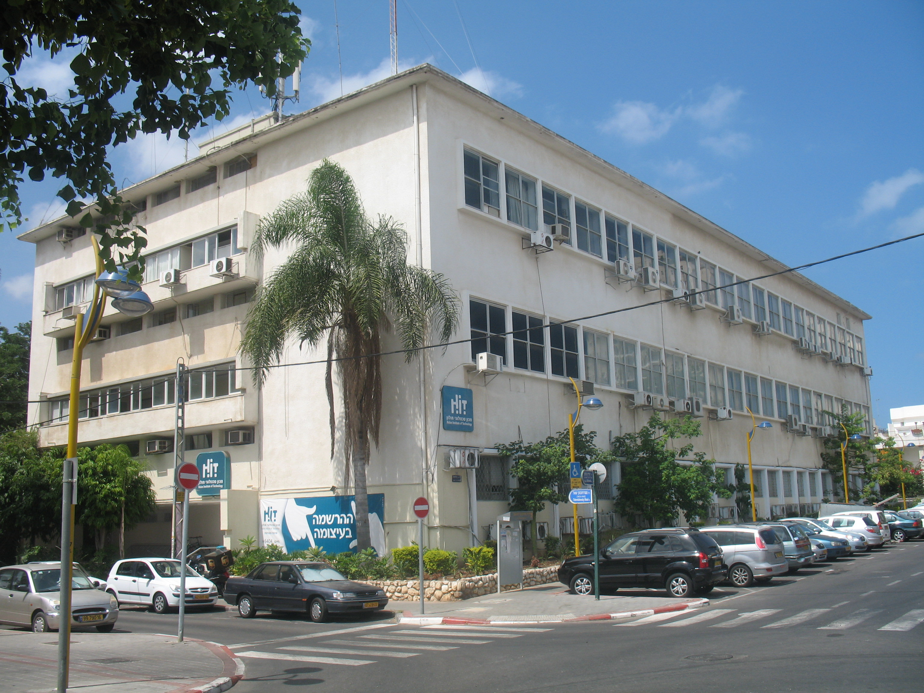 Holon Institute of Technology, bldg. 1